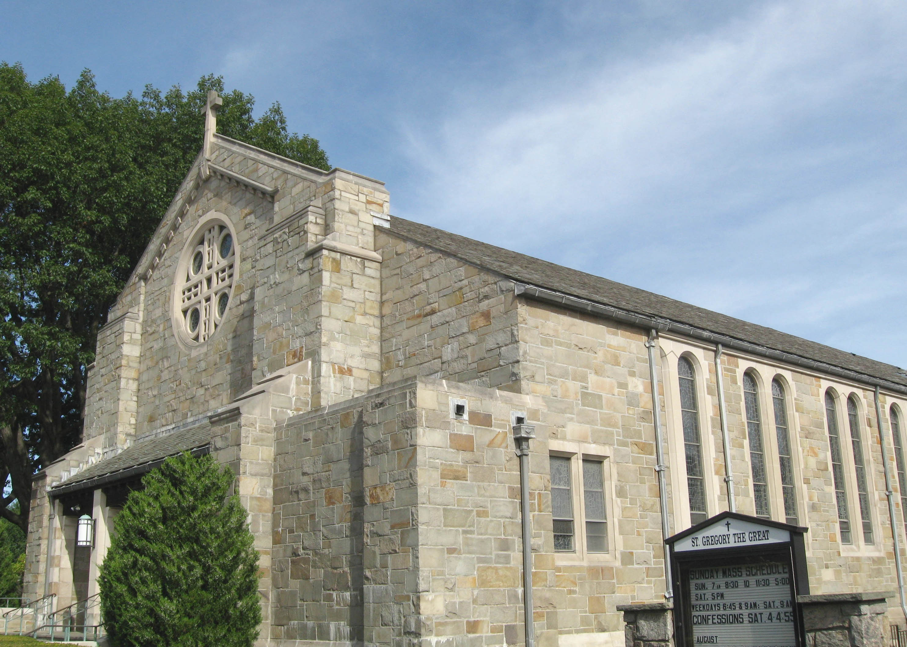 Looking east at St Gregory the Greater Catholic Church in Harrison, New York on a sunny early afternoon. ZIP 10528.